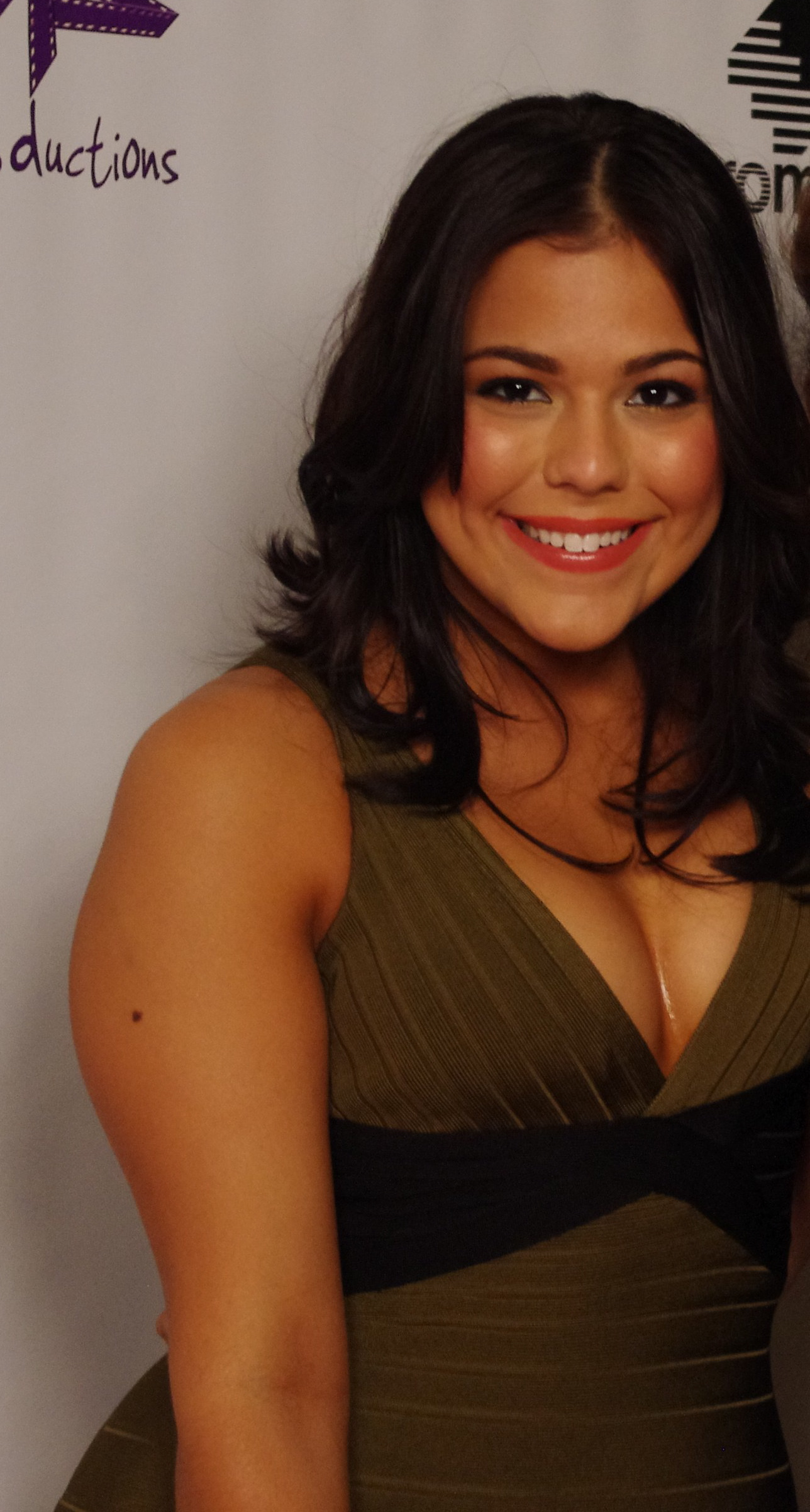 Shaina Sandoval at her first premiere